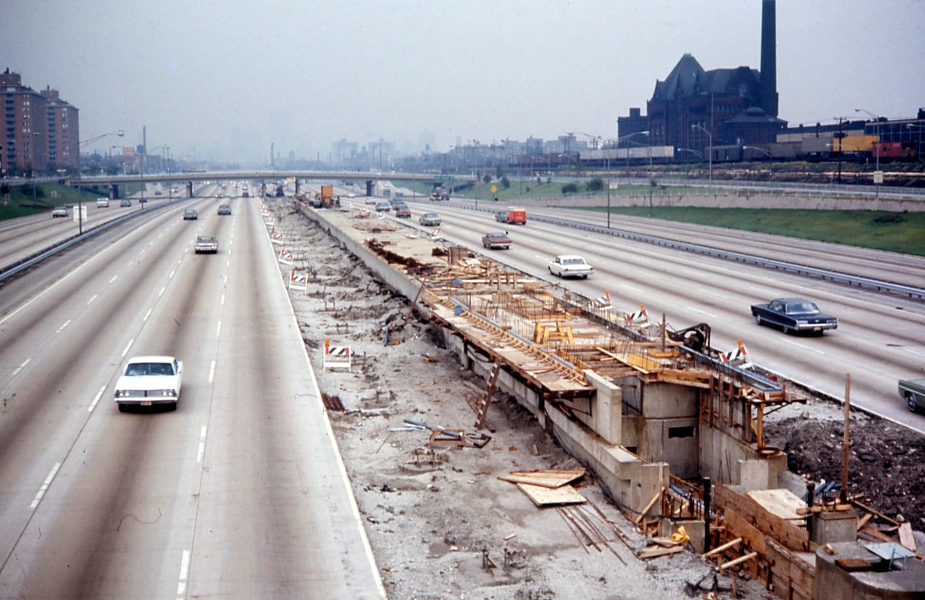 19680922 01 CTA Sox 35th station under construction..